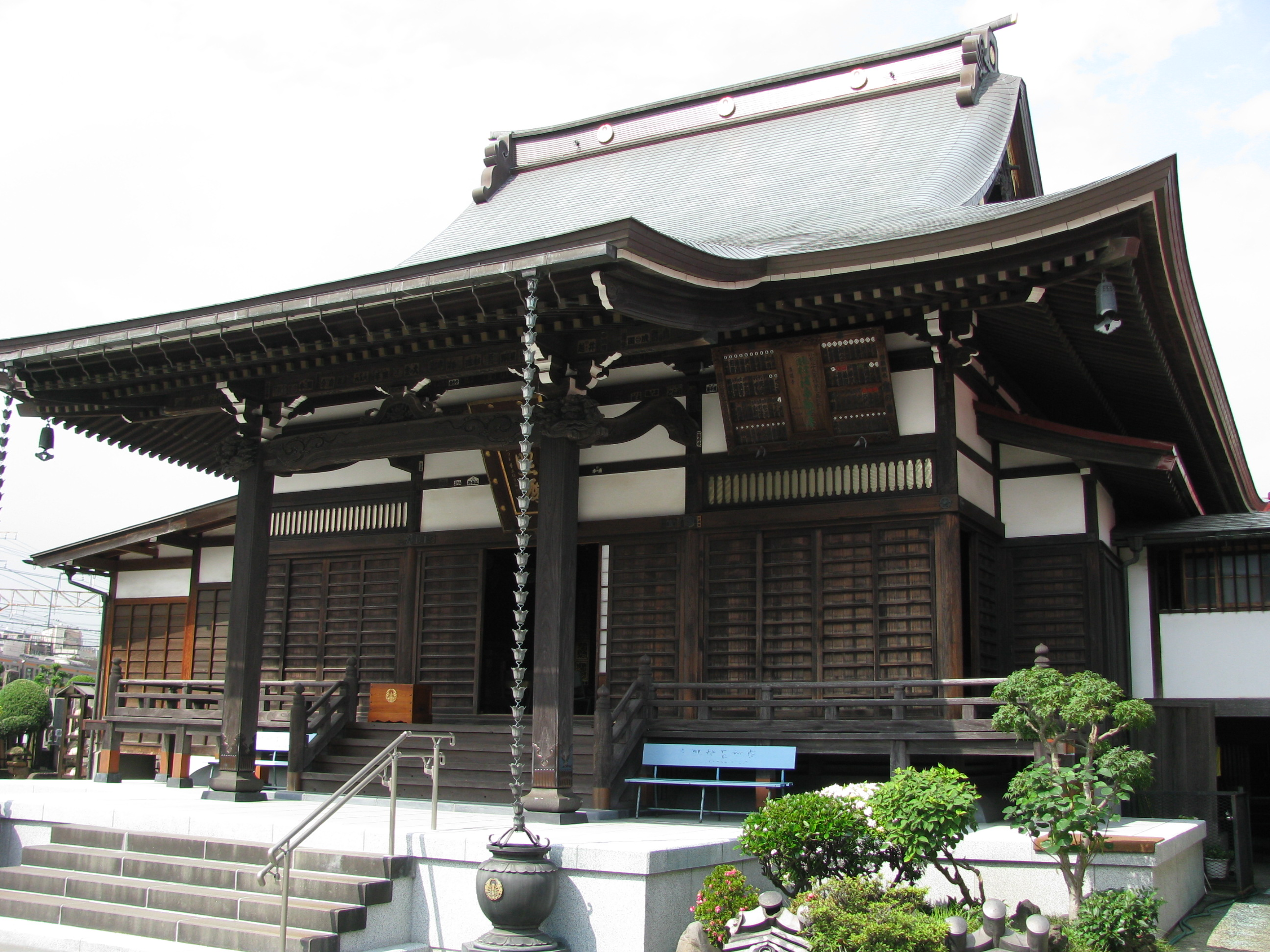 The keiun-ji of Japanese Buddhist temple. This temple also known as the Urashima temple. This place is Kanagawa-ku, Yokohama, Kanagawa, Japan.